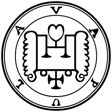 Vapula seal, THE BOOK OF THE GOETIA OF SOLOMON THE KING (1904)